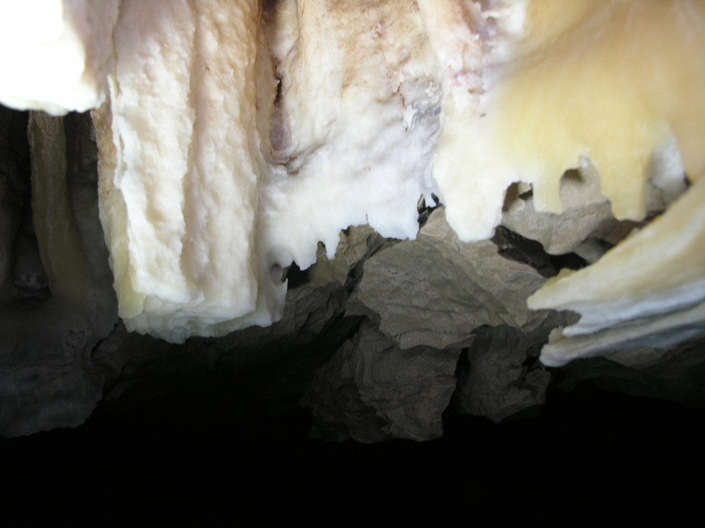 Melding of limestone calcite in the Ghost Cave Alghero